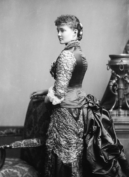 Cabinet card of Princess Louise Margaret of Prussia (1860-1917)